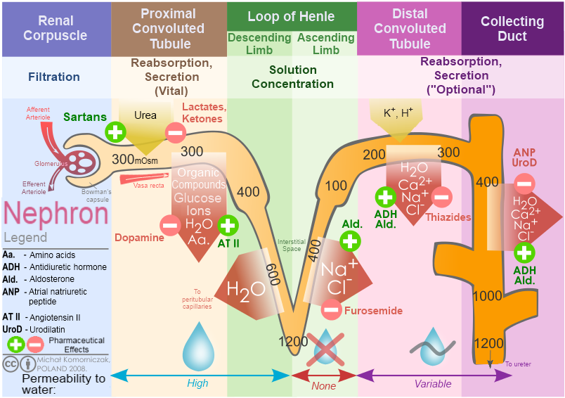 Nephron, Diagram of the urine formation. The number inside tubular urin concentration in mOsm/l - when ADH acts